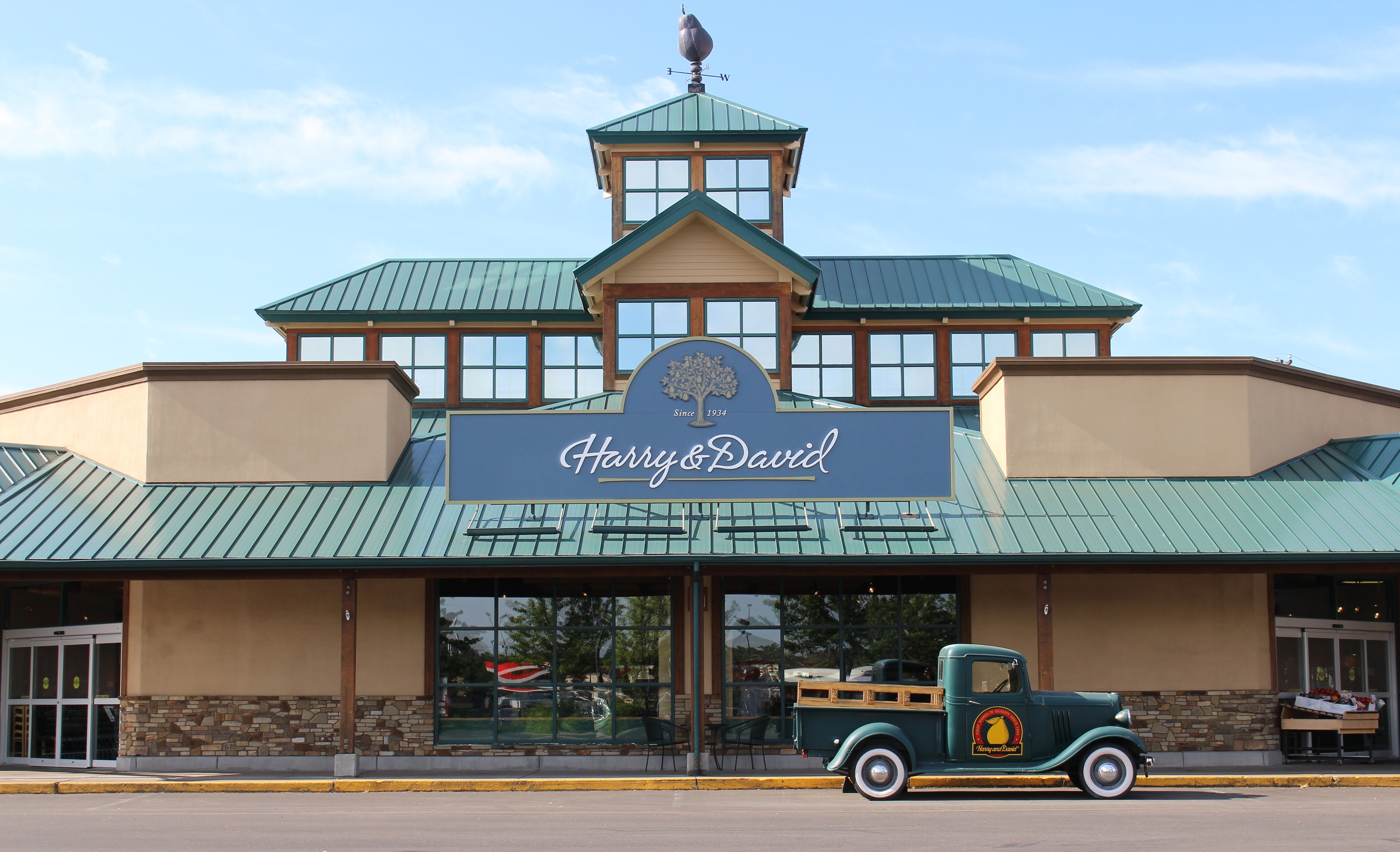 The Harry and David retail store at the Harry and David Country Village shopping center in Medford, Oregon. Photographed by user Coolcaesar on July 4, 2017.